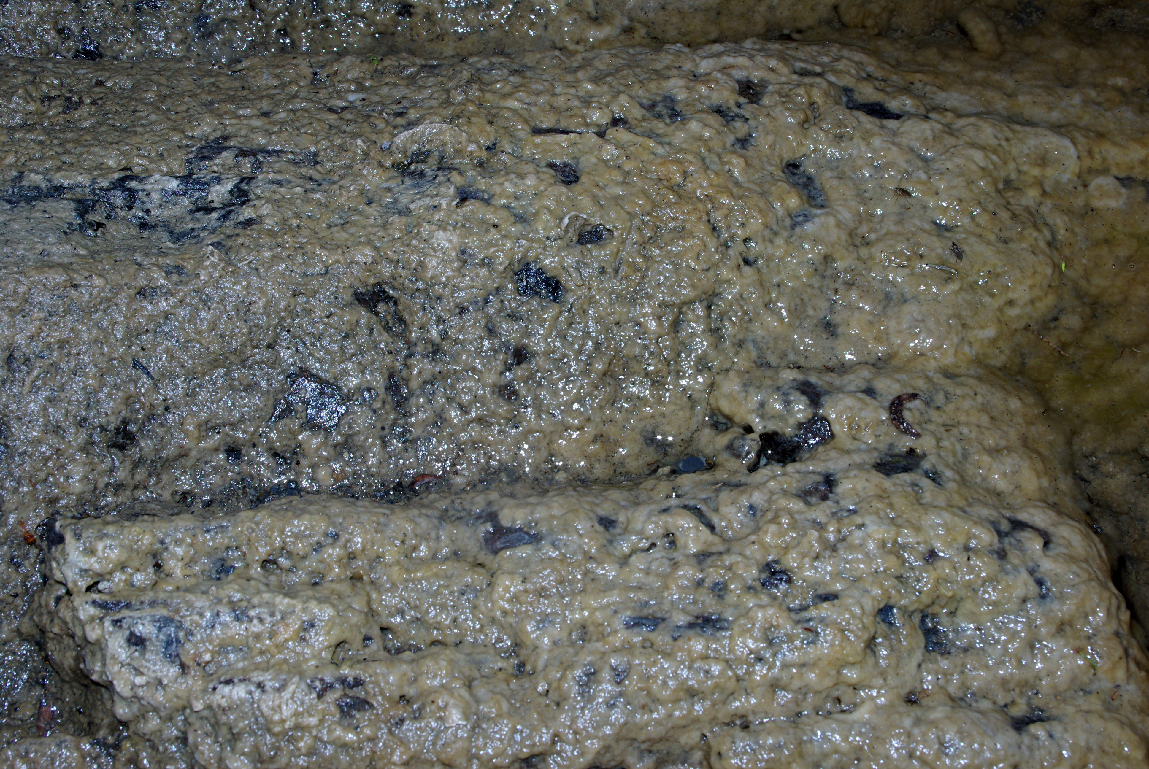 Didymo or rock snot (Didymosphenia geminata) in river Yuso (tributary of river Esla). León, Spain